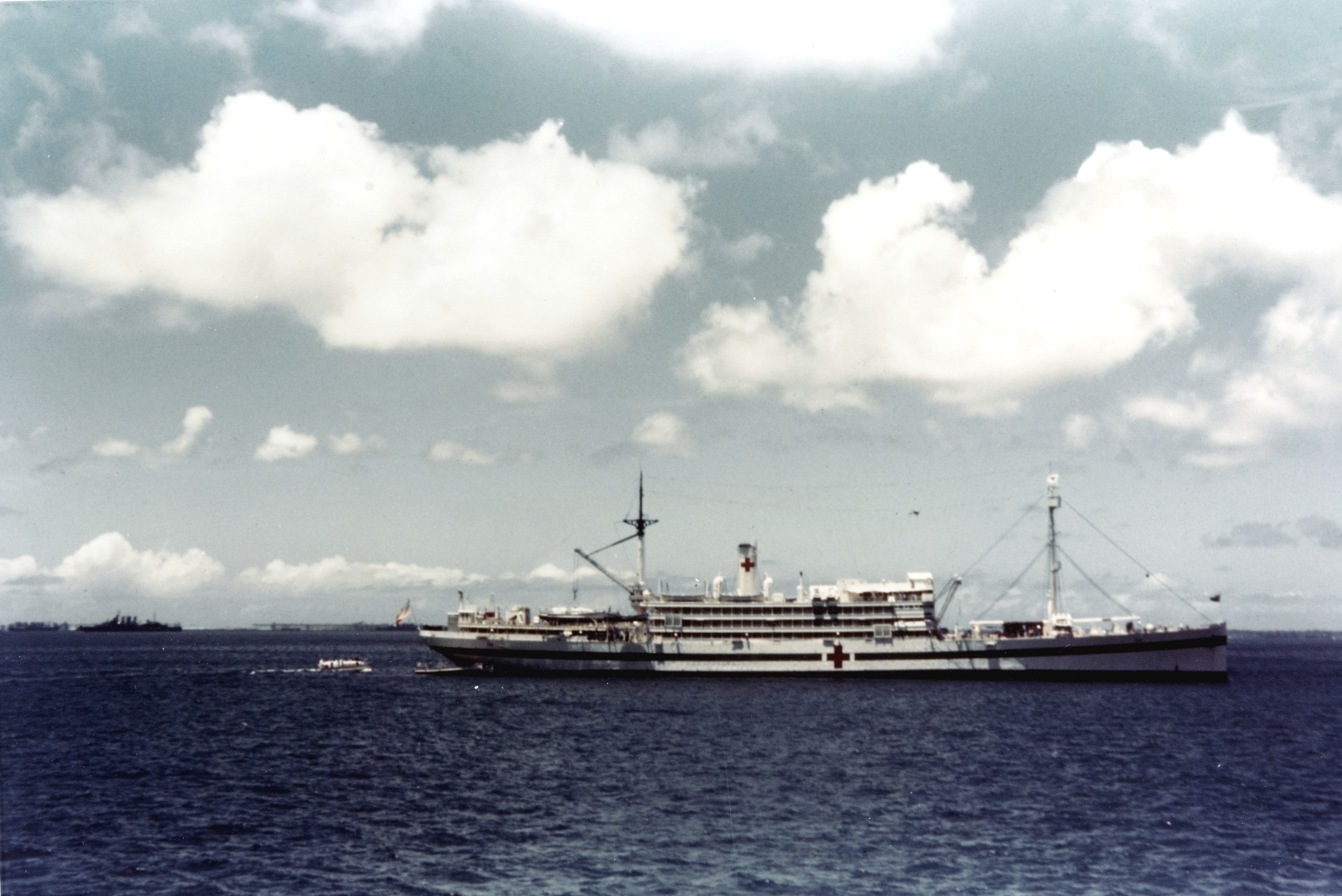 The U.S. Navy hospital ship USS Bountiful (AH-9) southwestern Pacific port in 1944-45. The ship in the left distance is an Australian cruiser (either HMAS Australia or HMAS Shropshire).